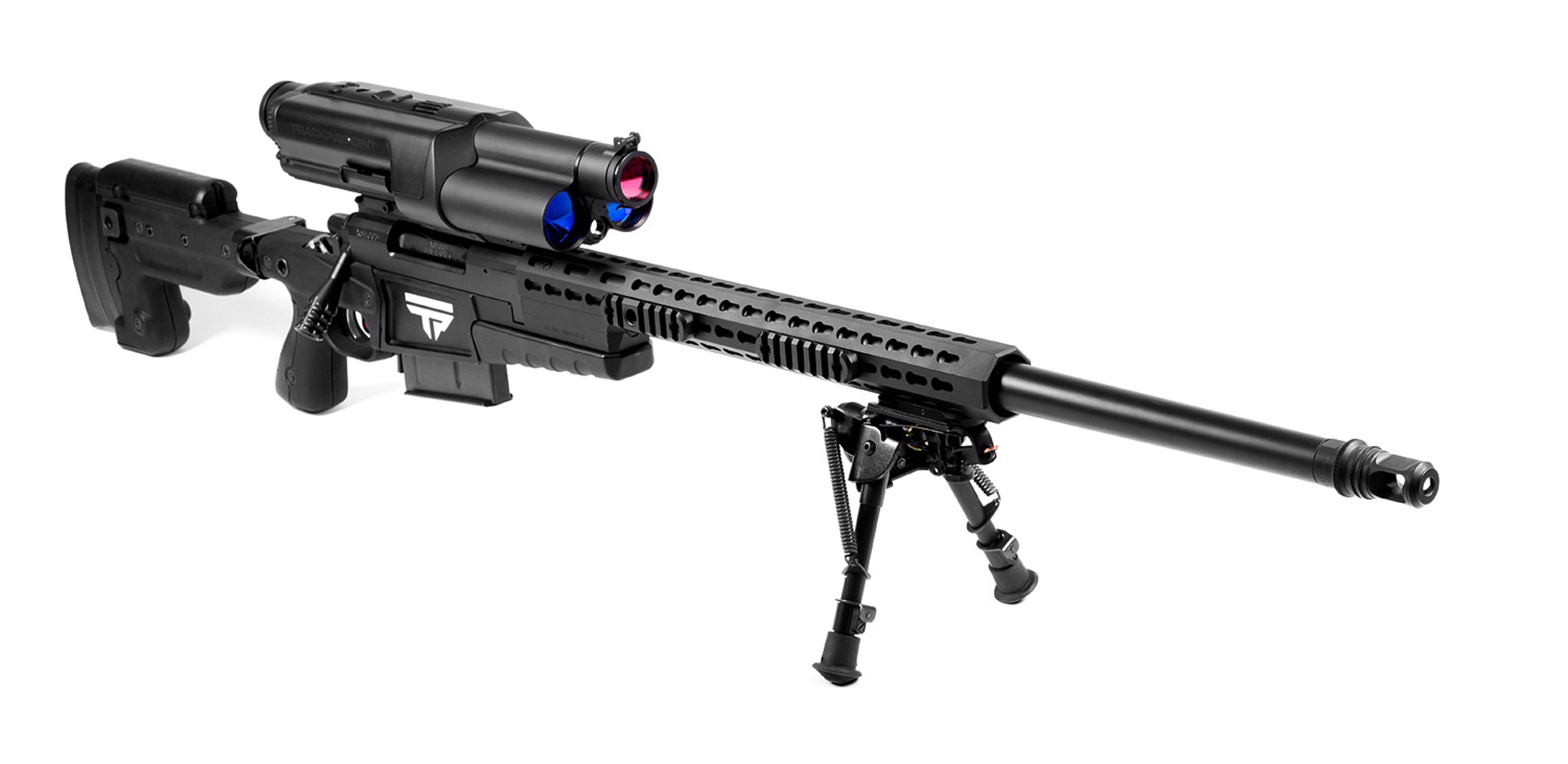 Precision Guided Firearm